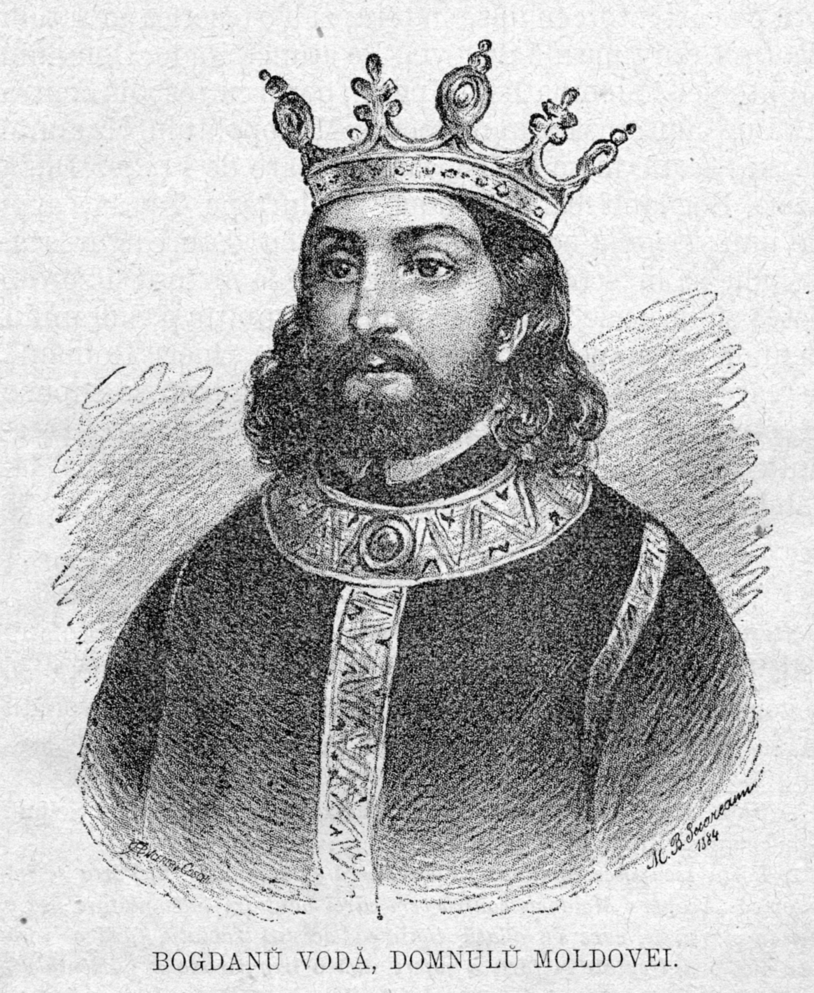 Bodgan I of Moldavia